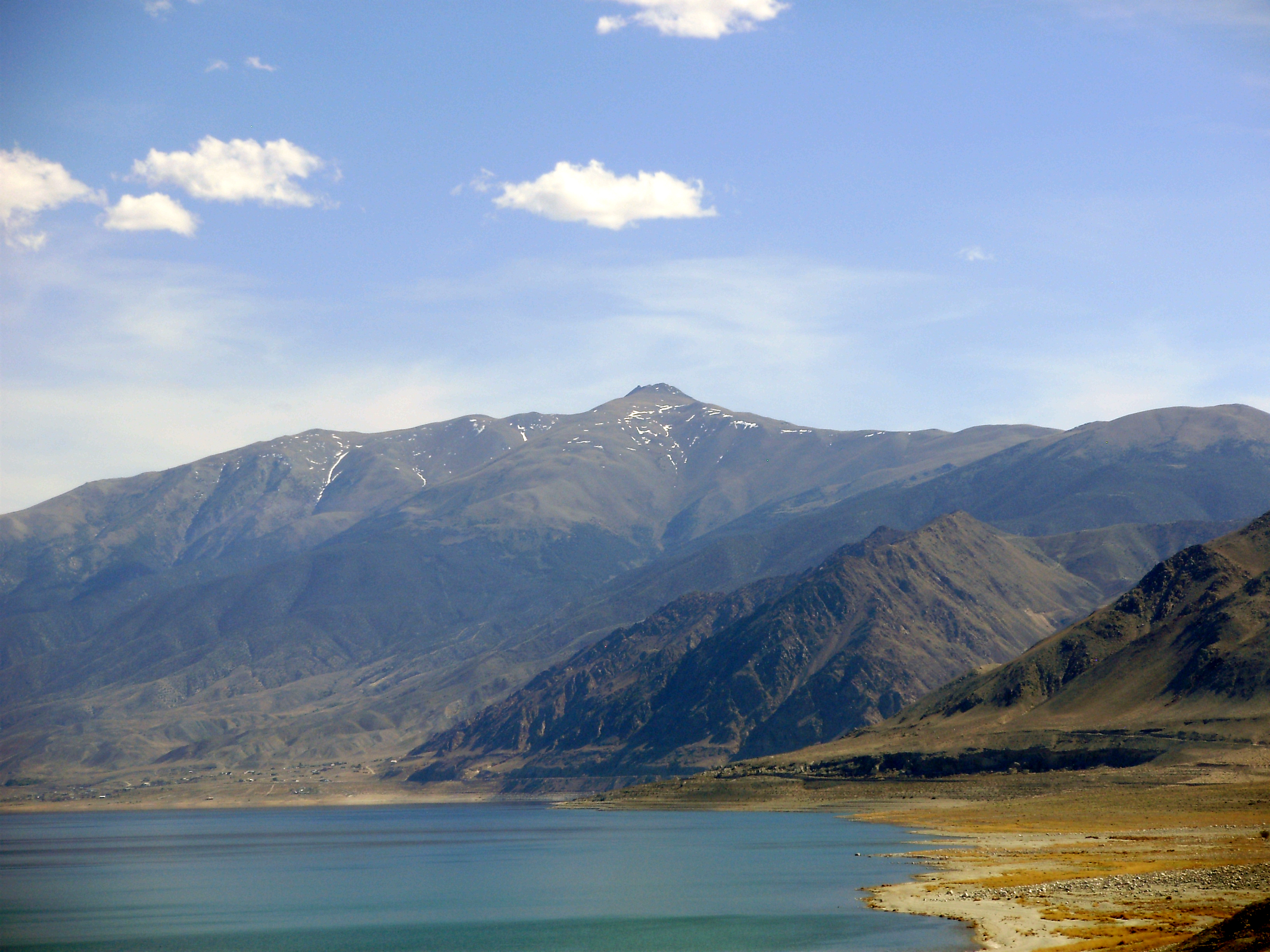 View of Mount Grant, Nevada from the northwest side of Walker Lake color altered